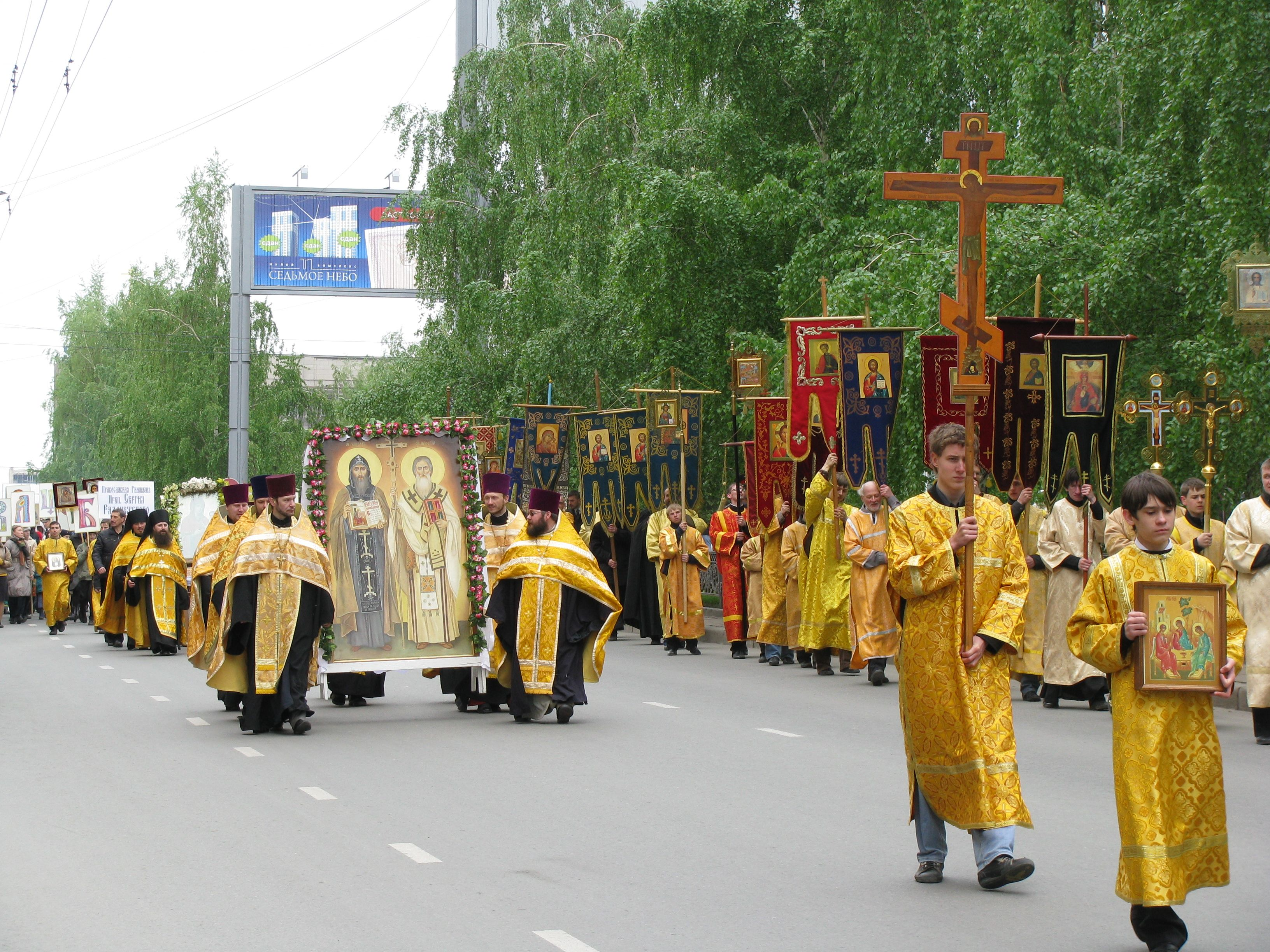 Cross Procession in Novosibirsk